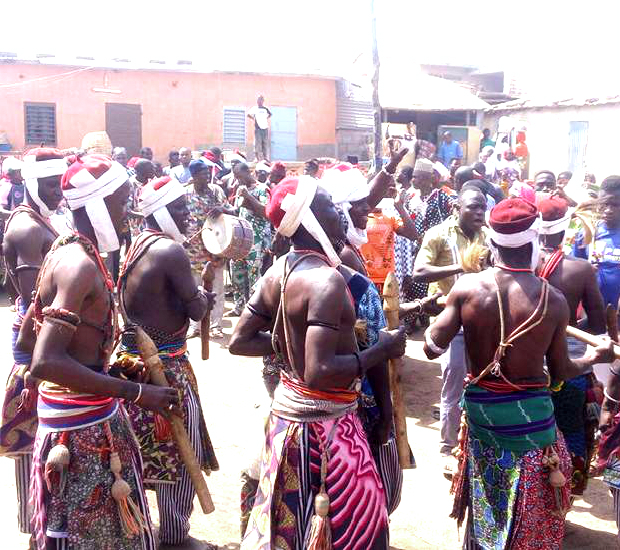 Dancers performing at the Bariba Ganni festival, Nkki, Borgu department, Benin.